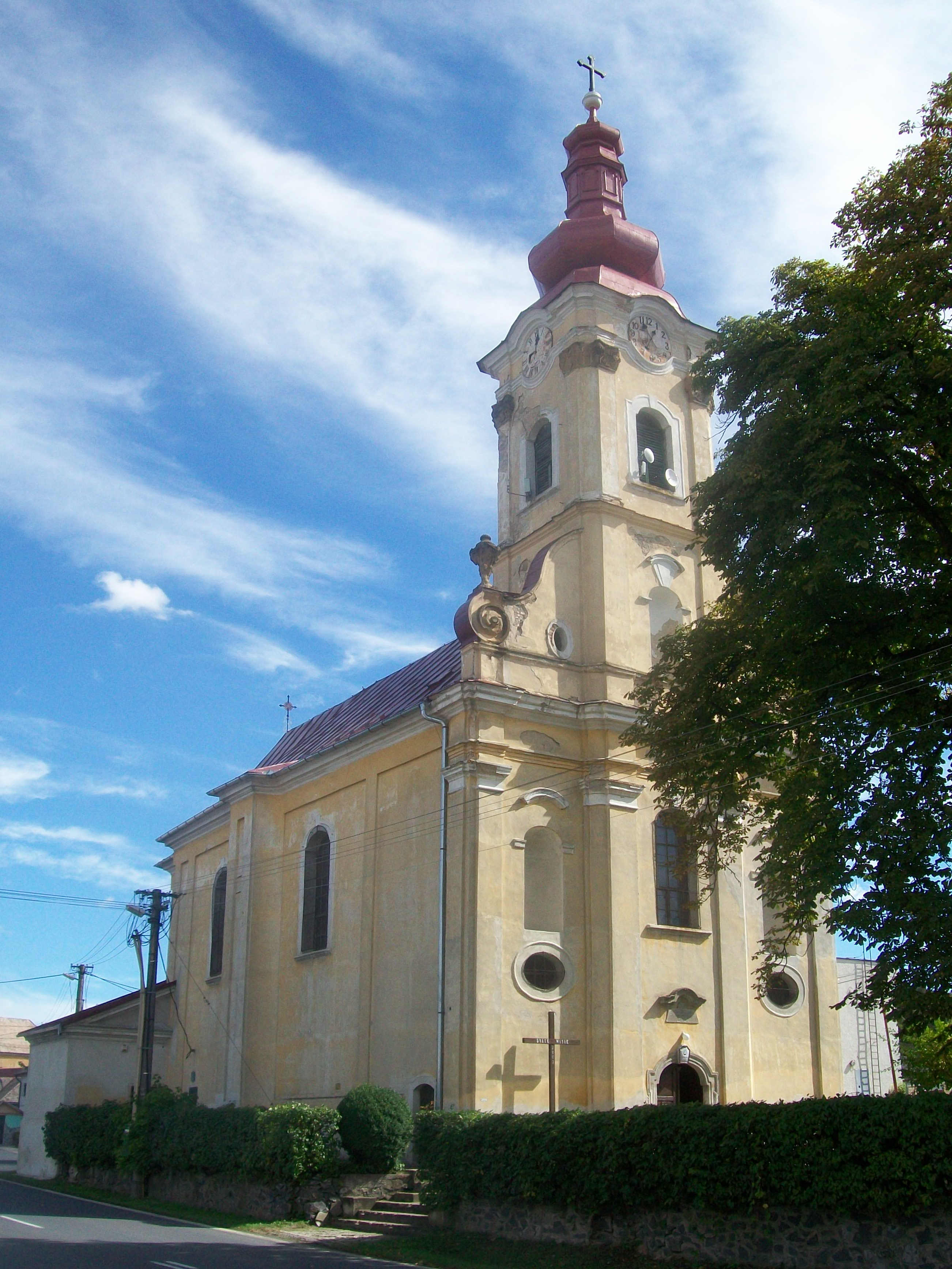 Roman Catholic Church of St. Michael in the village Ožďany